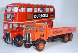 The first two models which marked the launch of the EFE range in 1989.